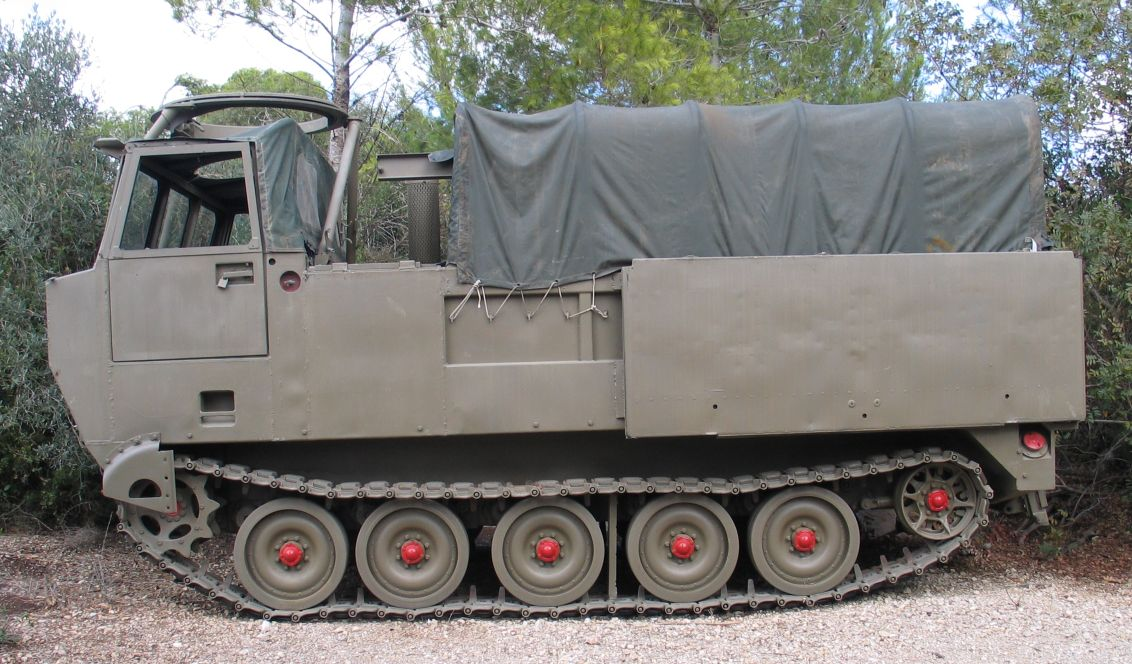 Description: M-548 Cargo Carrier on M113 APC chassis in Beyt ha-Totchan, Zichron Yaakov, Israel. Source: Photo by me, User:Bukvoed.